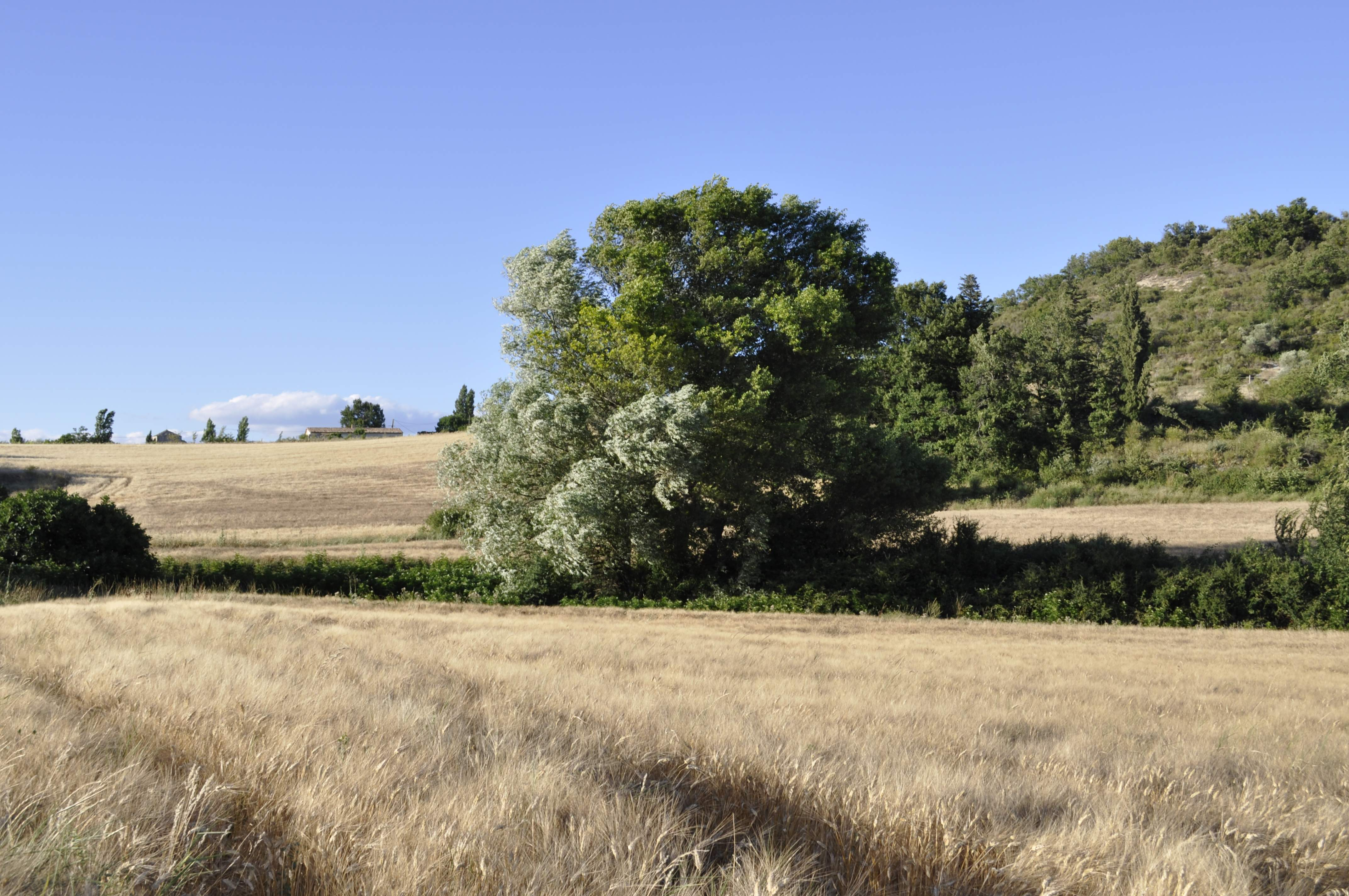 Typical landscape near Manosque, as described into Giono's novels.